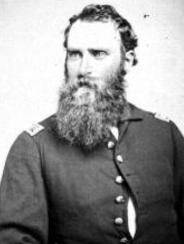 Photo of Charles Henry Tompkins, MOH awardee from US Civil War